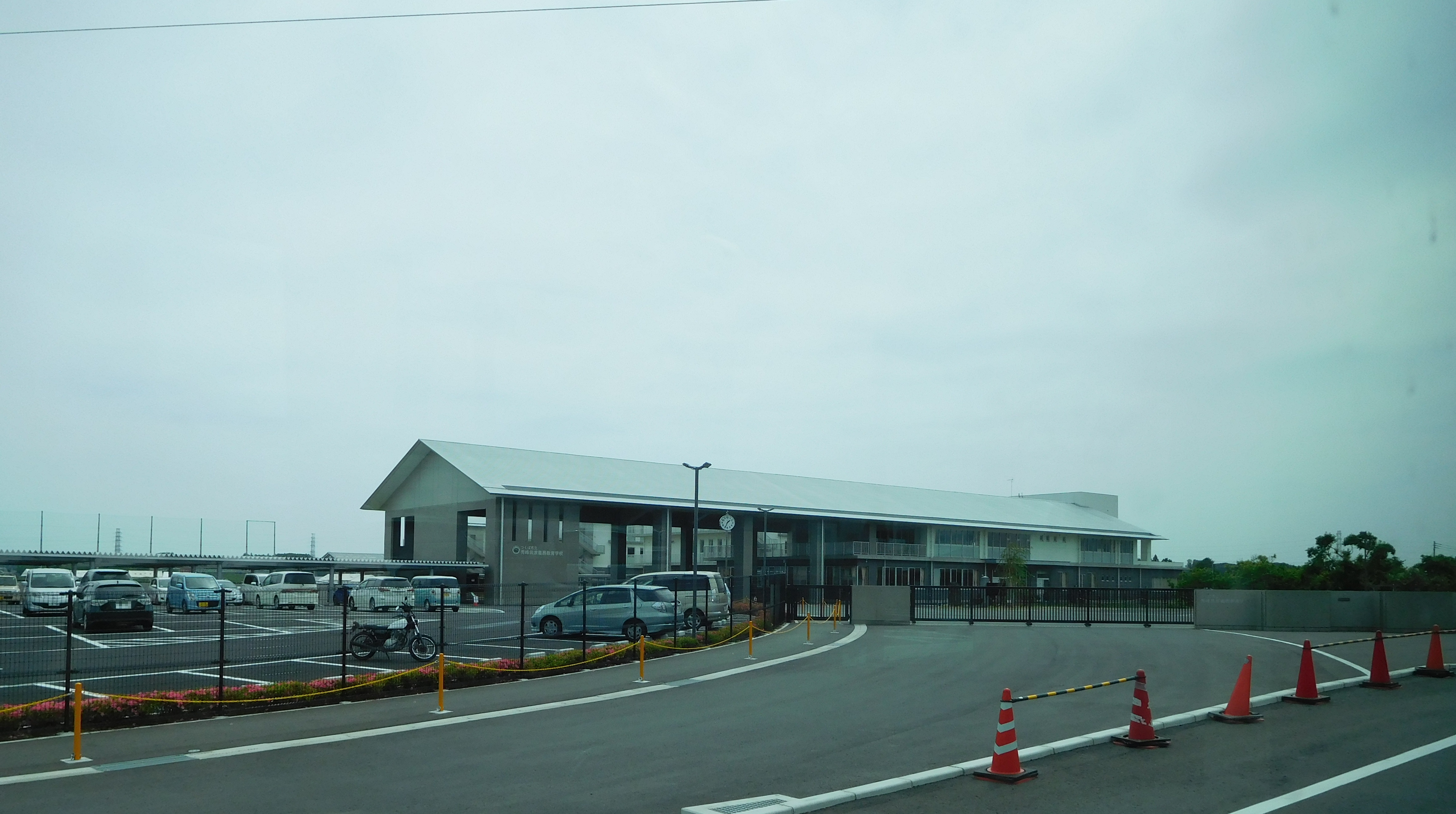 This is Tsukuba city Shuho Tsukuba compulsory education school in Tsukuba, Ibaraki, Japan.